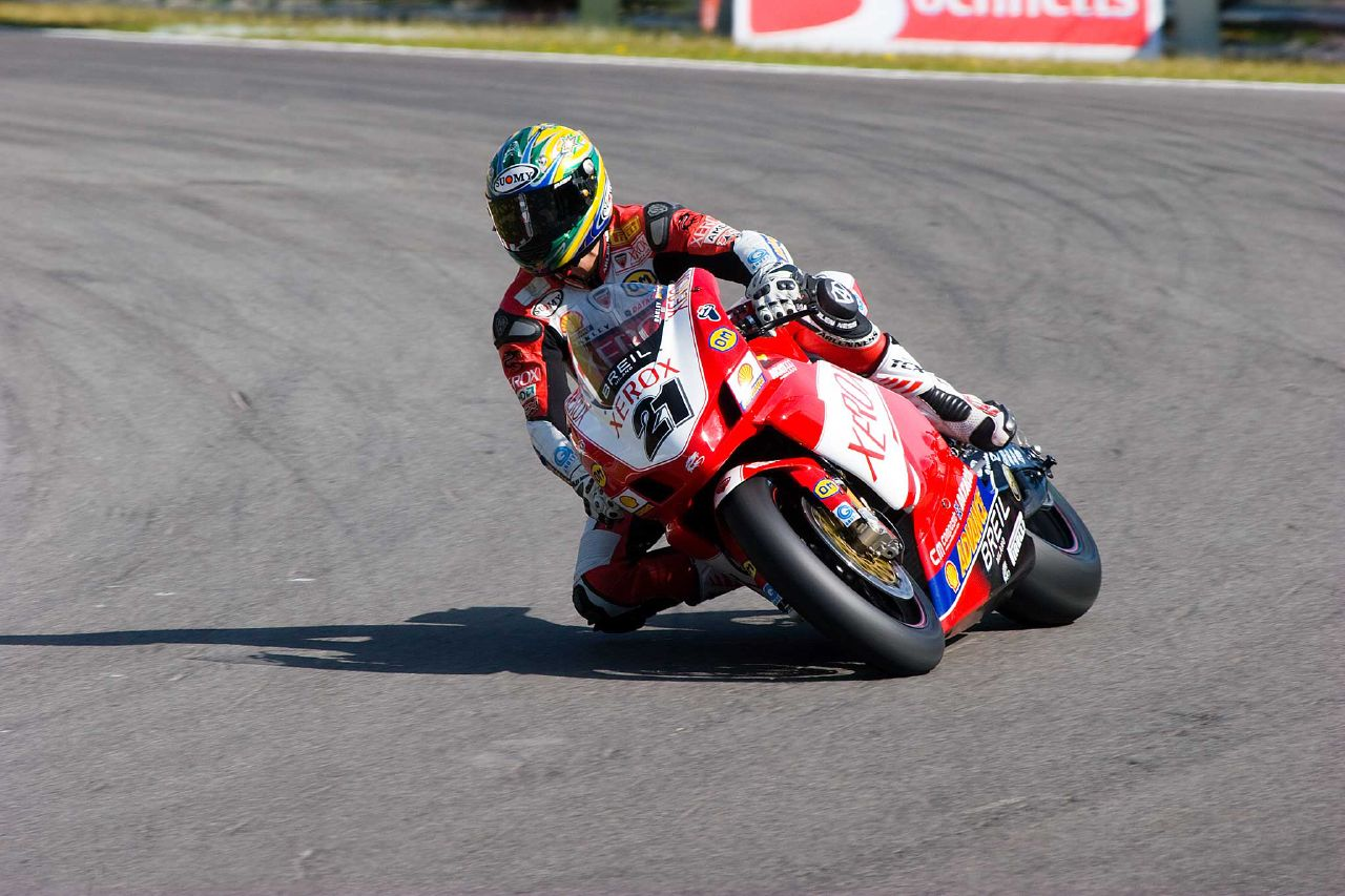 WSBK Round 10 Brands Hatch 2007